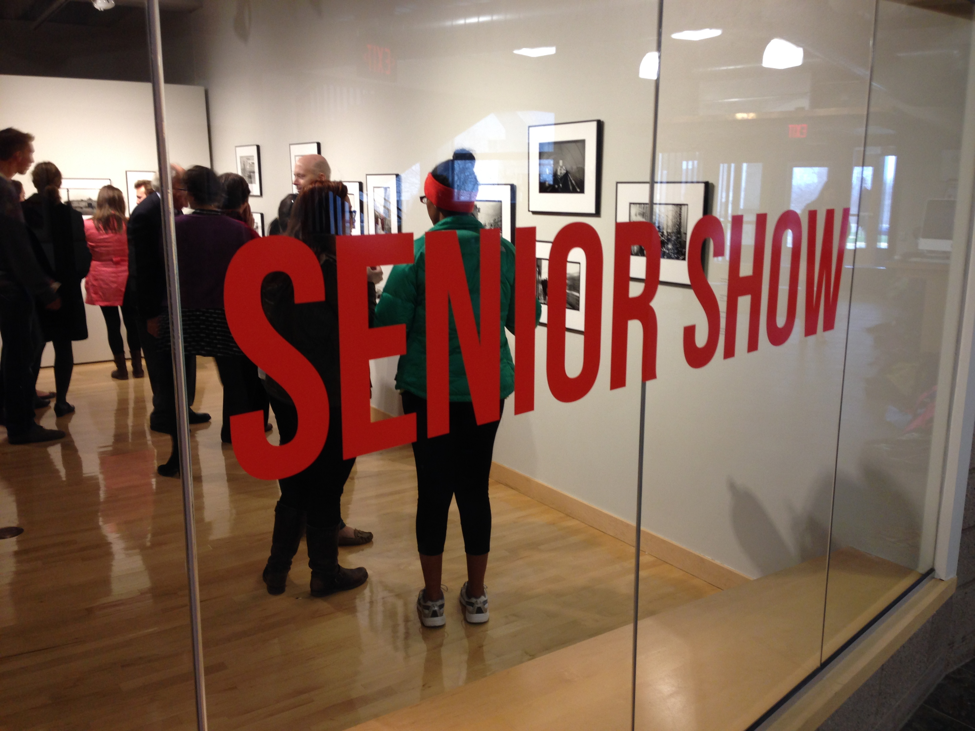 Art gallery during the Senior Show at St Olaf College in Northfield, Minnesota. This is in The Center for Art and Dance in April 2014.